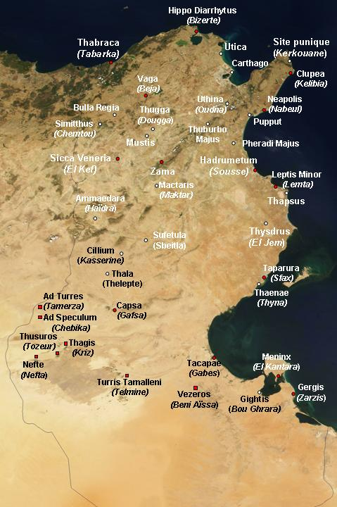 Satellite map of Tunisia, with ancient Punic and Roman archeological sites. White dot : important archeological sites. Red dot : other antic site. Personal work.